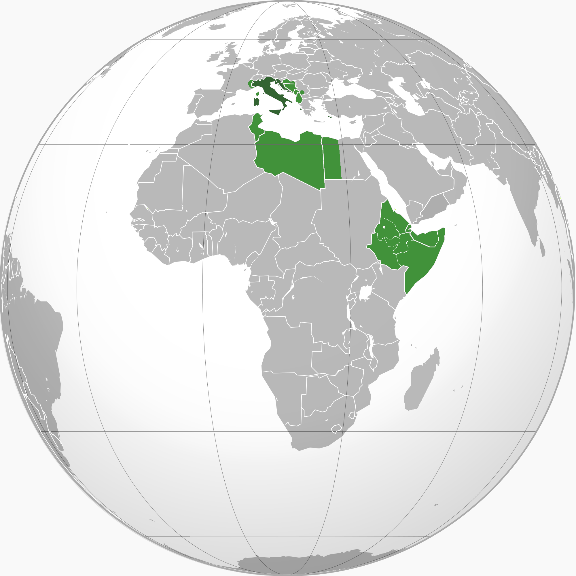 Map of Italian Empire (1936-1943)